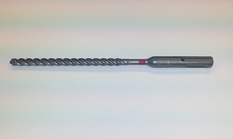 Hilti SDS-plus carbide drill bit with four-cutter head (rebar resistant)